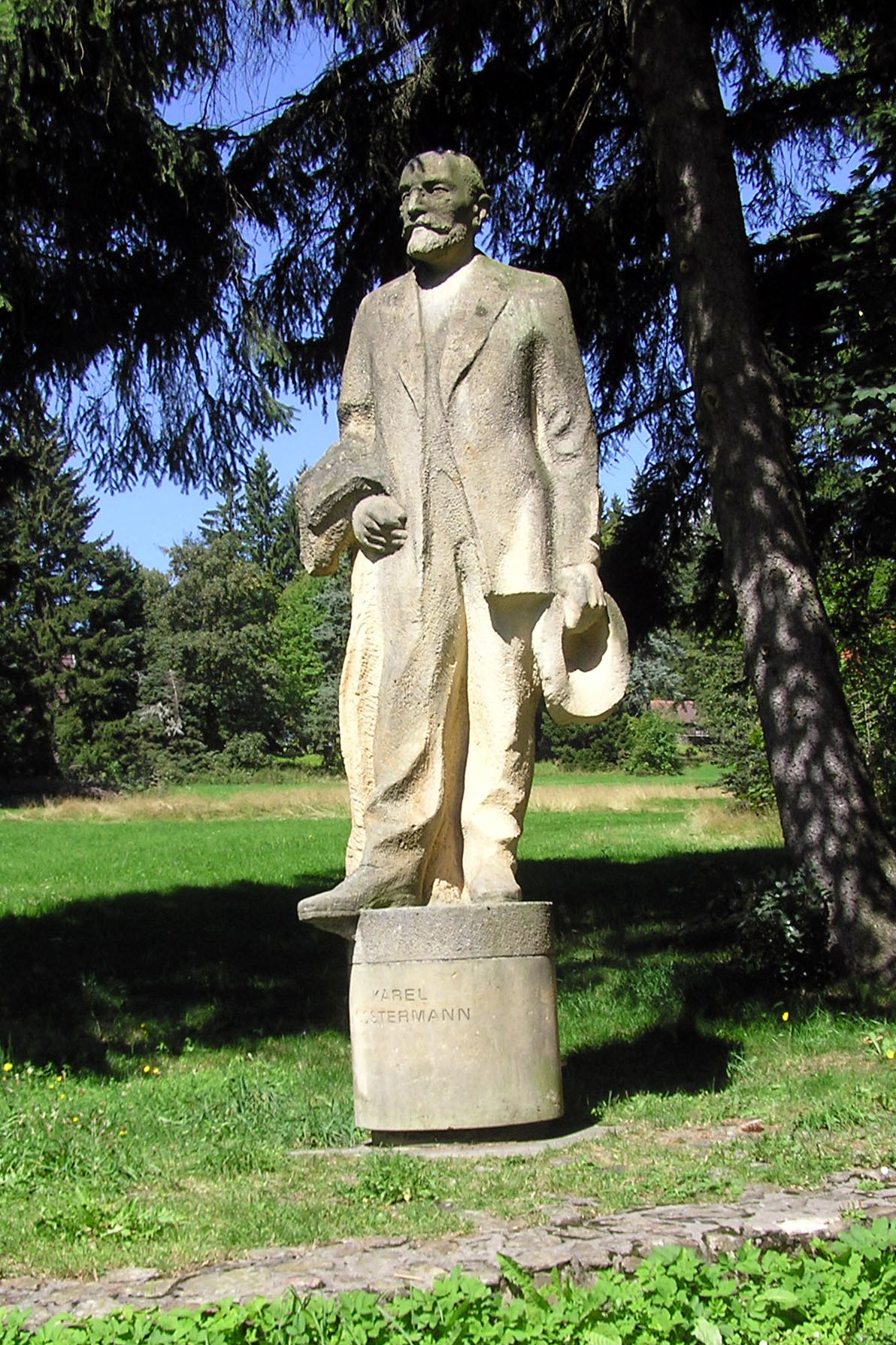 Statue of the Czech writer Karel Klostermann (1848-1923) in the health-resort Javorník (South Bohemia)